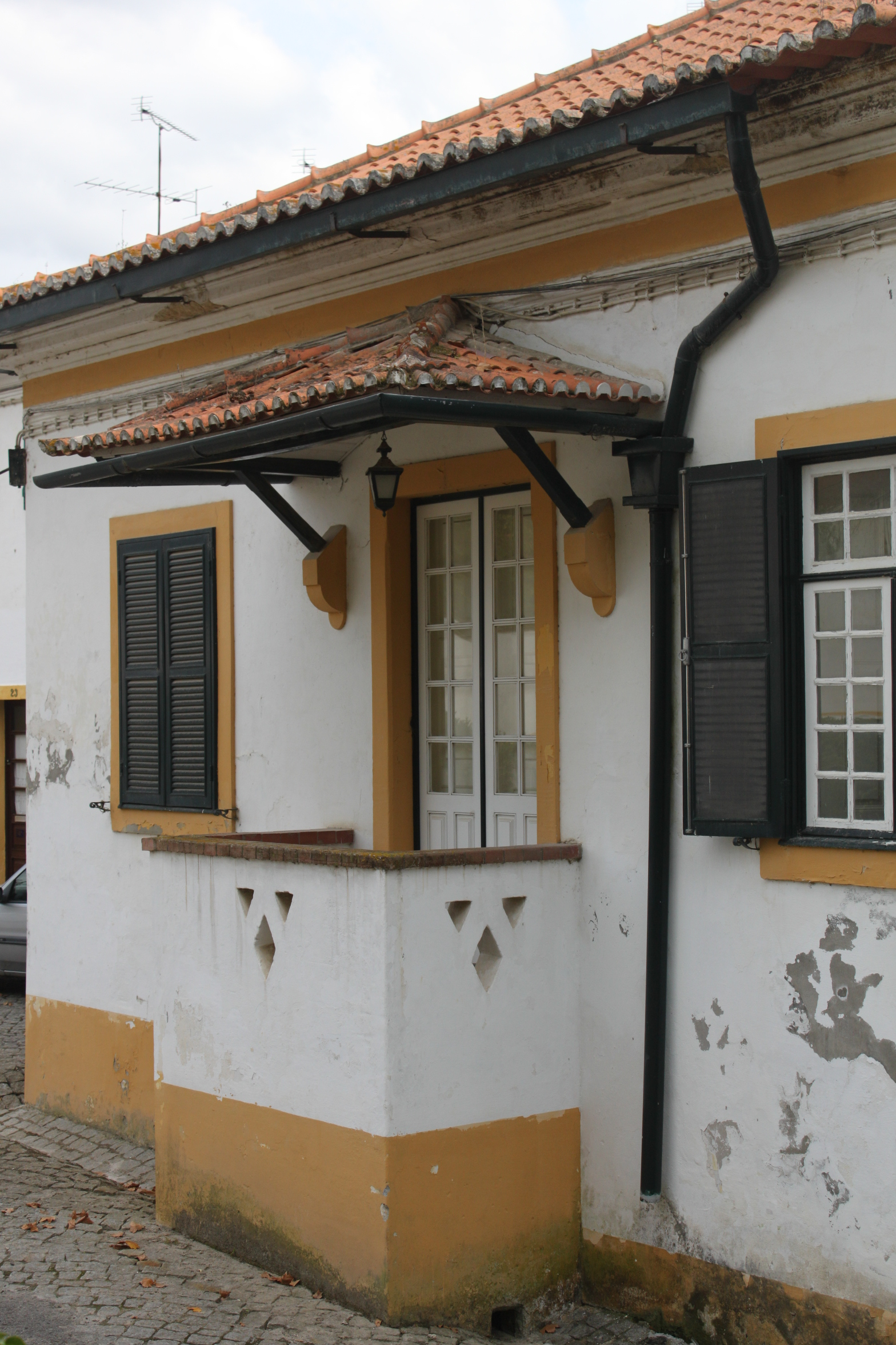 This file was uploaded for Wiki Loves Monuments in Portugal with the unique identifier 97008631.